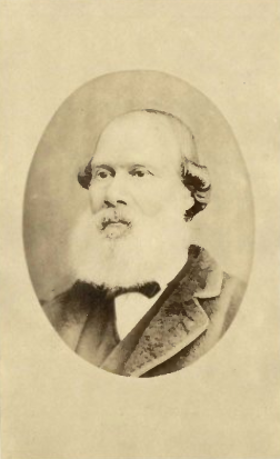 Constantino Cúmano (1811-1873), Italian physician who practised in Portugal.